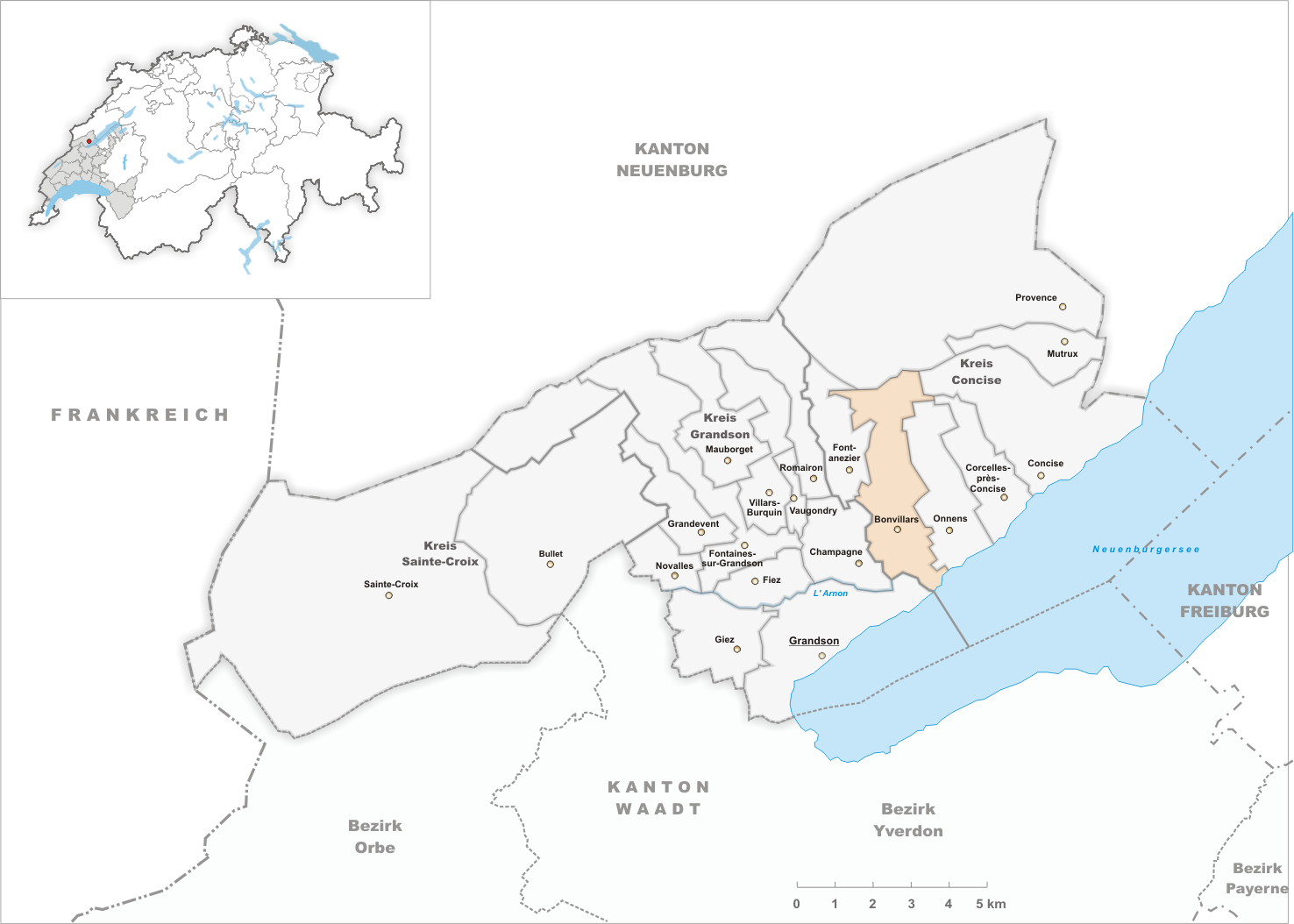 Municipality Bonvillars